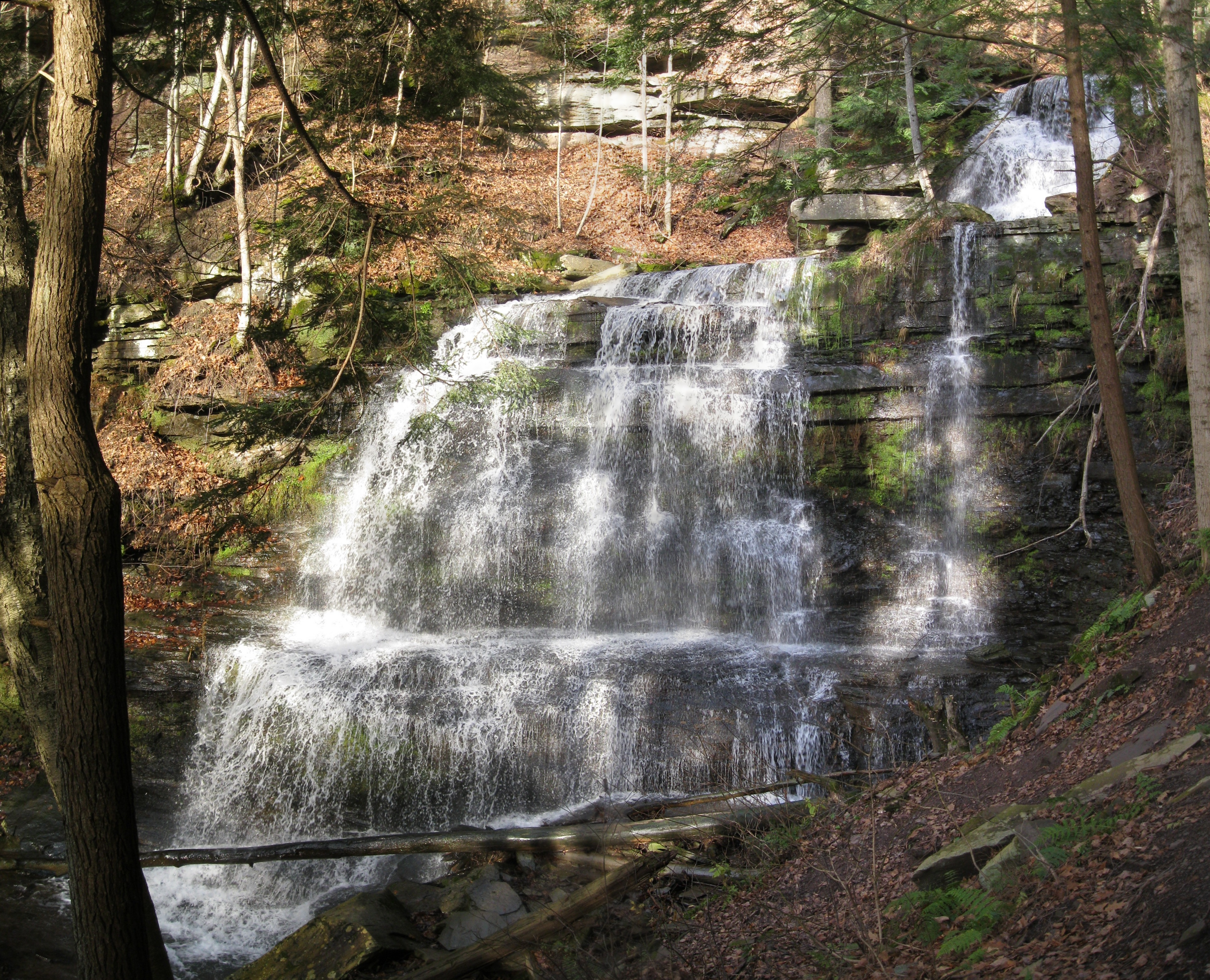 Second waterfall on Little Four Mile Run going downstream, as seen from the Turkey Path in Leonard Harrison State Park in Shippen Township, Tioga County, Pennsylvania, United States